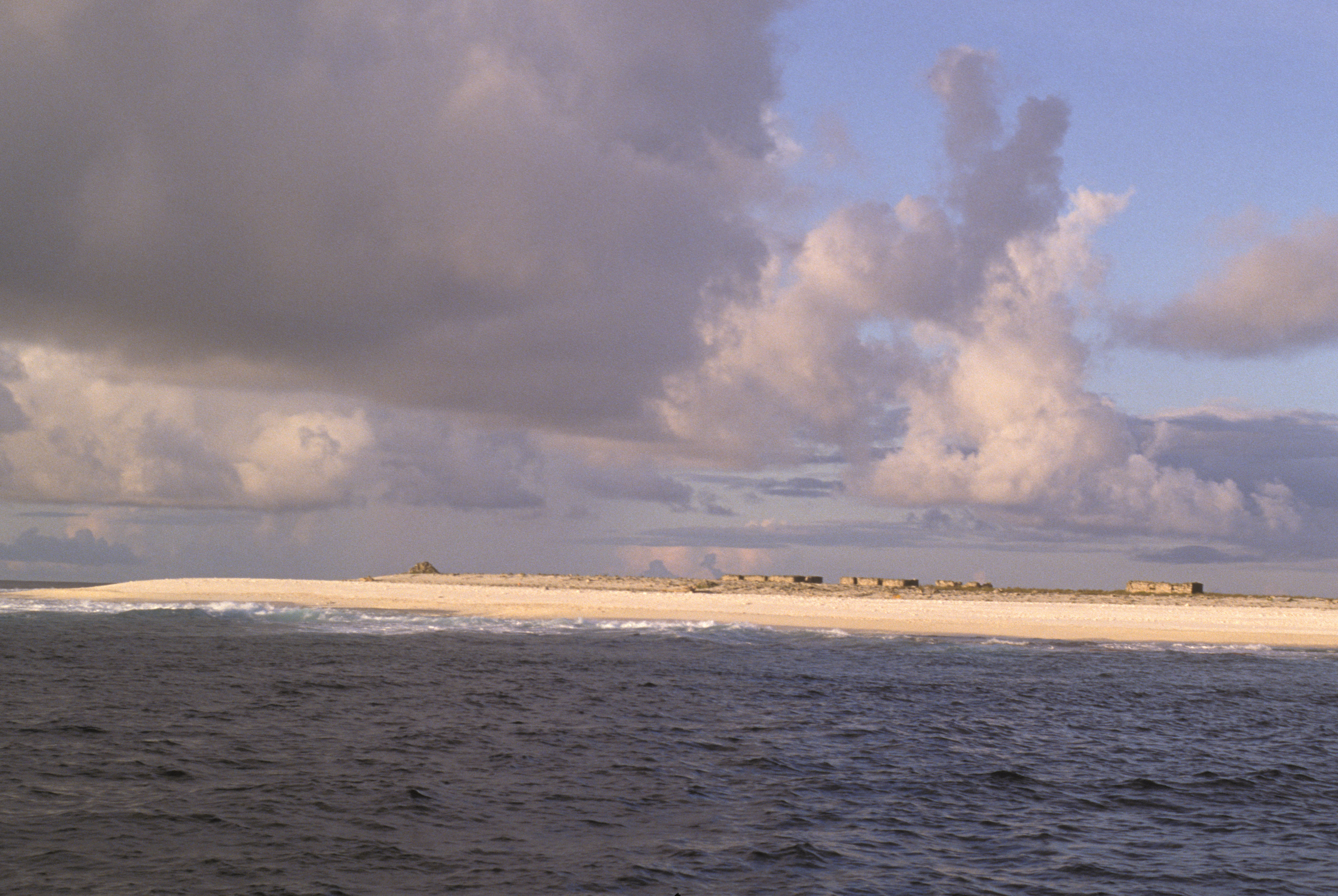 The northwestern end of Starbuck Island, Line Islands, Kiribati. Original description: The northwestern end of Starbuck island seen from the sea shows the remains of buildings from the last time it was populated by people. During the guano era, dozens of people lived here, mining "Coral Queen Guano", the highest quality in the Pacific.